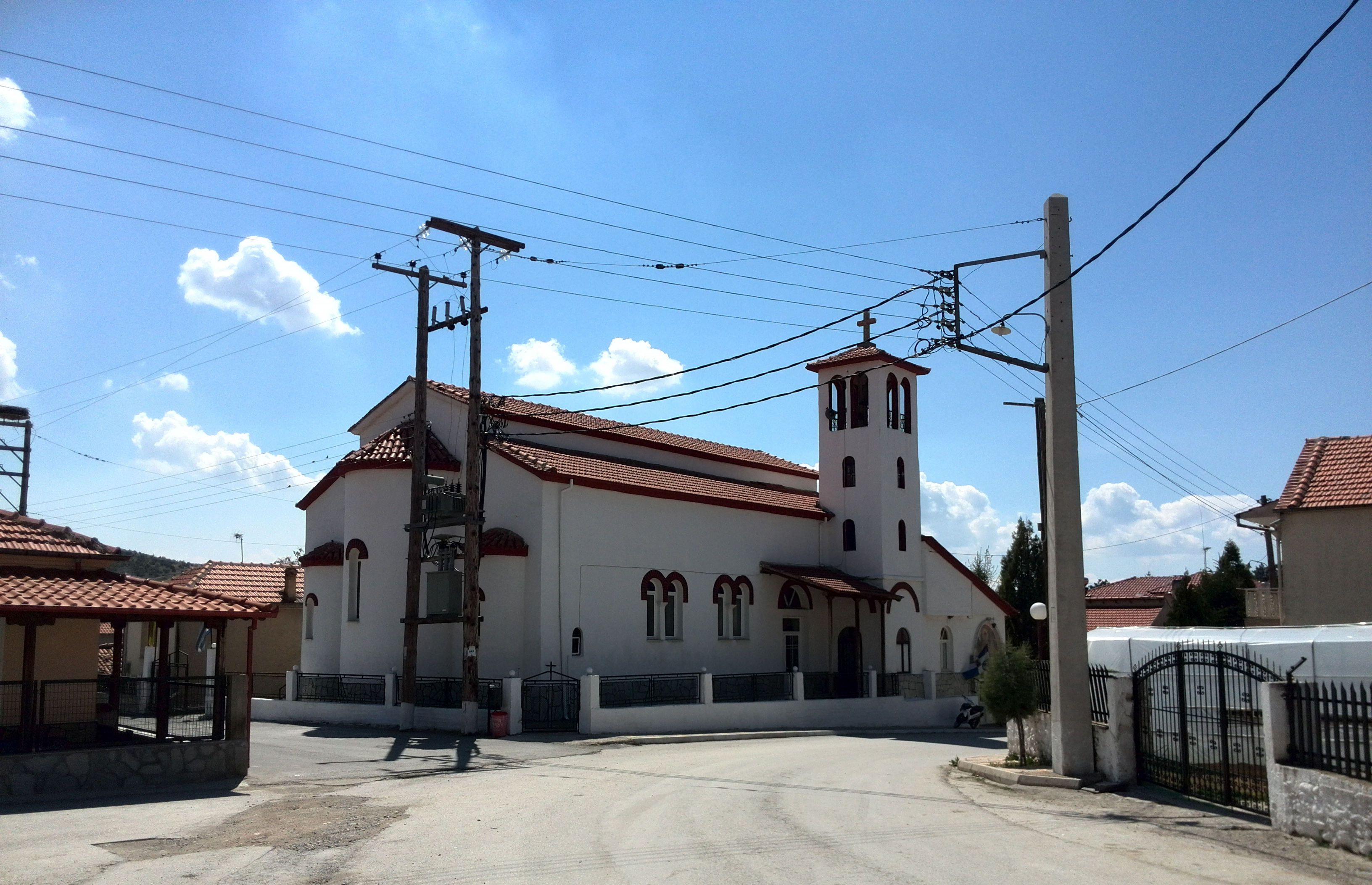 Ahlada, Florina ( Αχλάδα), Greece. Српски (ћирилица): Ахлада (Флорина), црква св. Спиридона, Грчка.